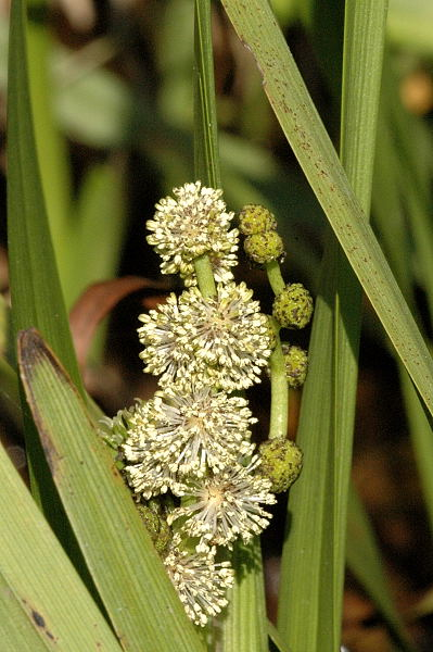 Picture taken in Commanster, Belgian High Ardennes . Species: Sparganium erectum